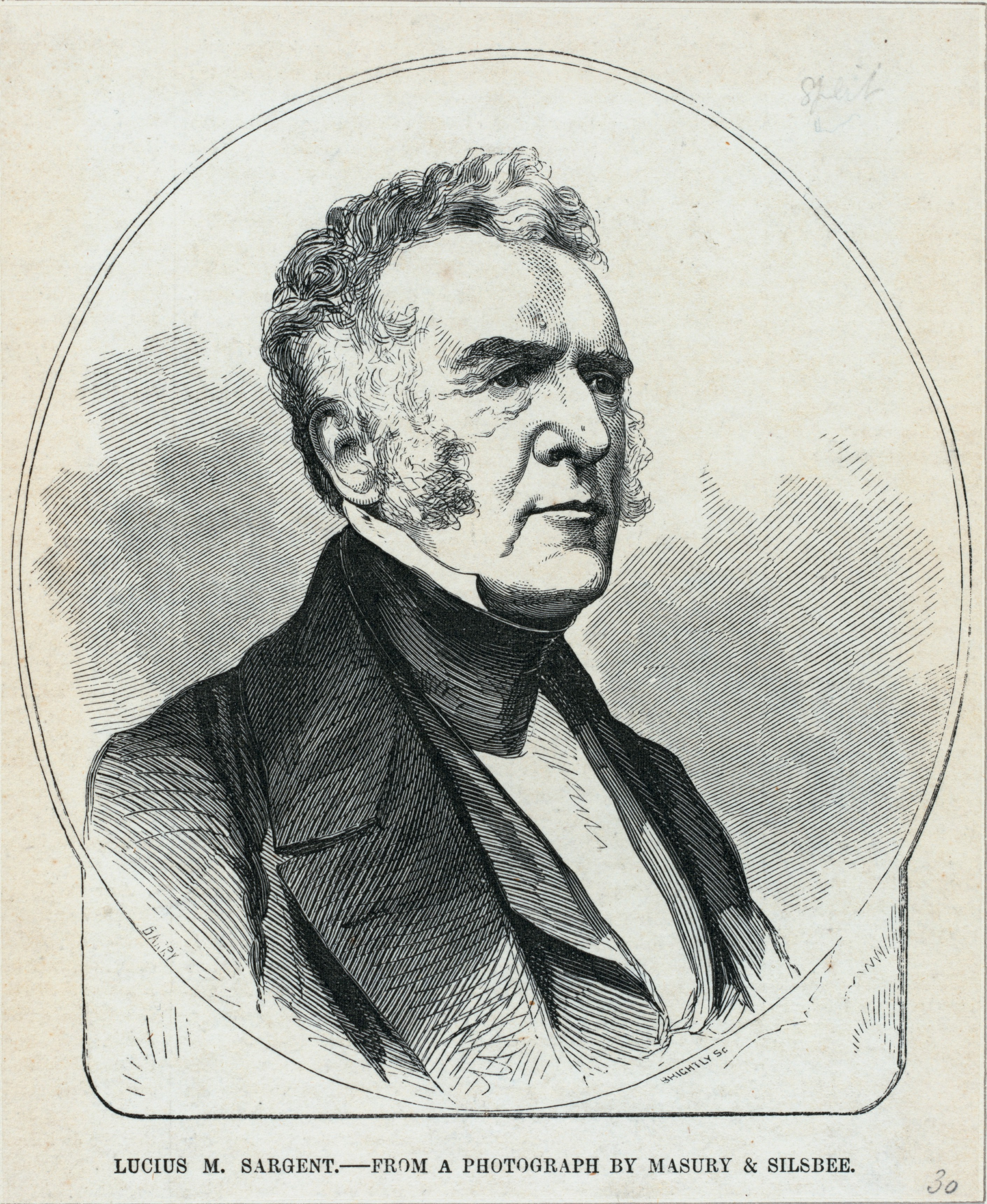 Illustrated by Thomas Addis Emmet, 1880. Volume 2 consists of pages 1-99 of the 1865, quarto, edition of the work, volume 3 of pages 99-213, volume 5 of pages 303-400. Citation/Reference: EM13142